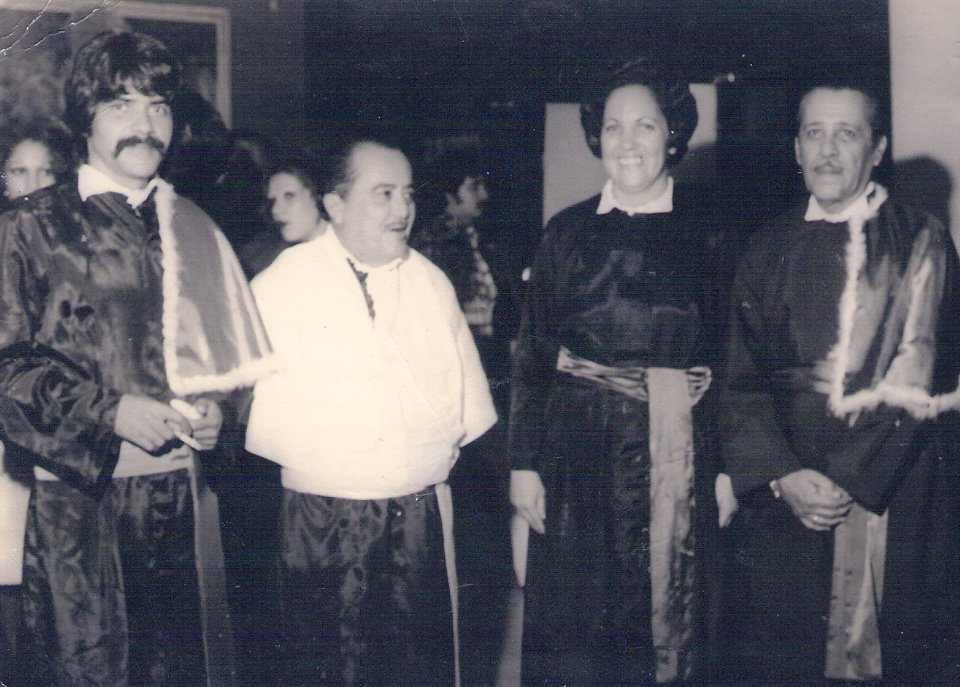 Arquivo Memorial Dr. Romildo Borges Mendes